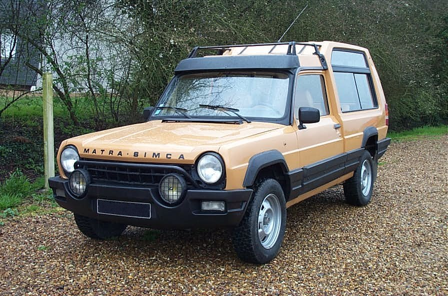 1977 Matra Simca Rancho, lemon The vehicle was among the many classic French cars handled by the Garage de l'Est